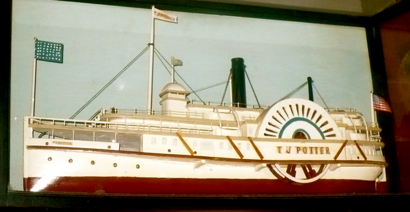 folk art model of steamboat T.J. Potter (model now at Dan & Louis Oyster Bar, 2nd and Ankeny, Portland, OR USA)